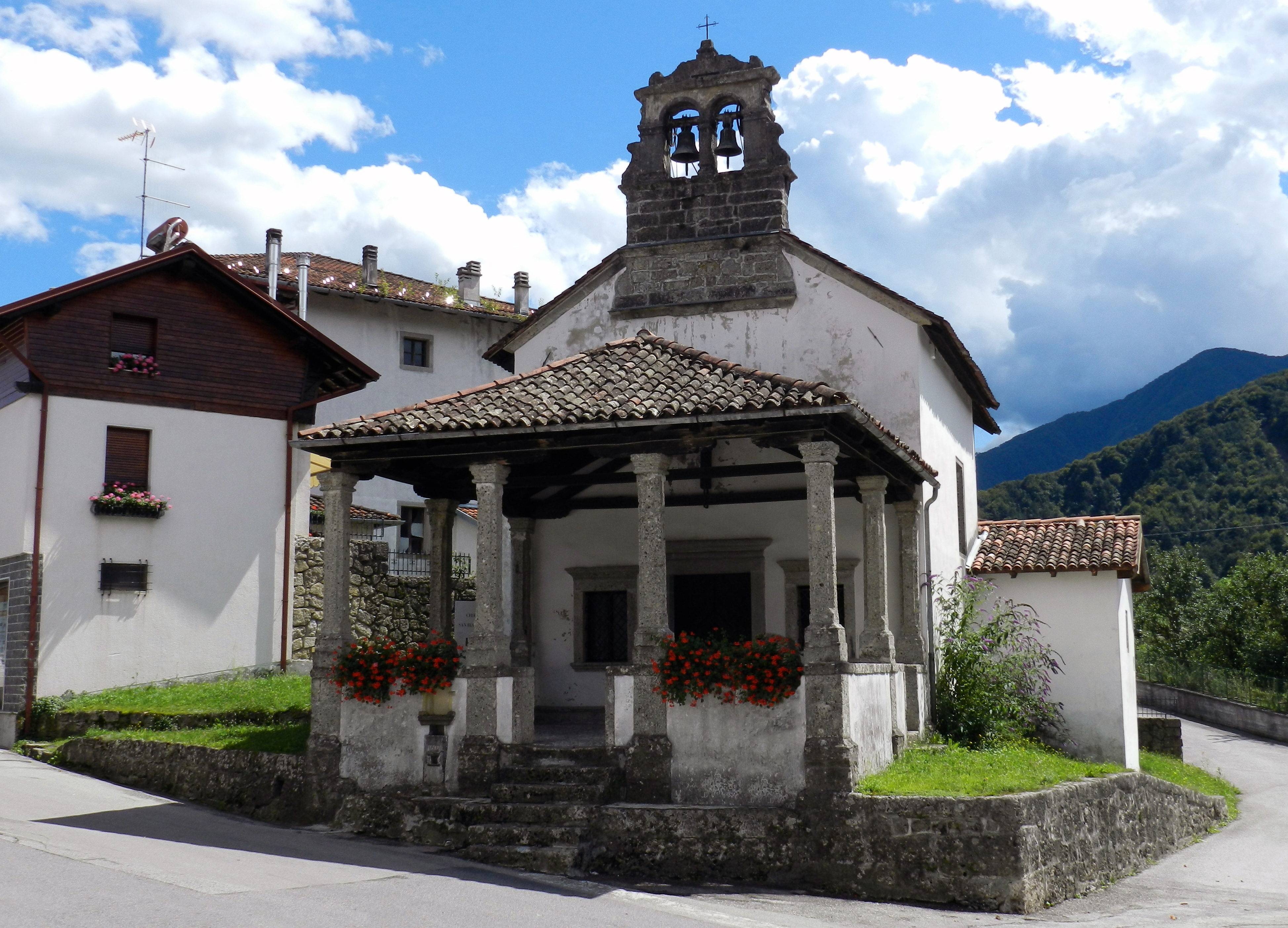 Church of St. Blaise [Century XVI, XVII] Mediis - Socchieve (UD) Friuli-Venezia Giulia